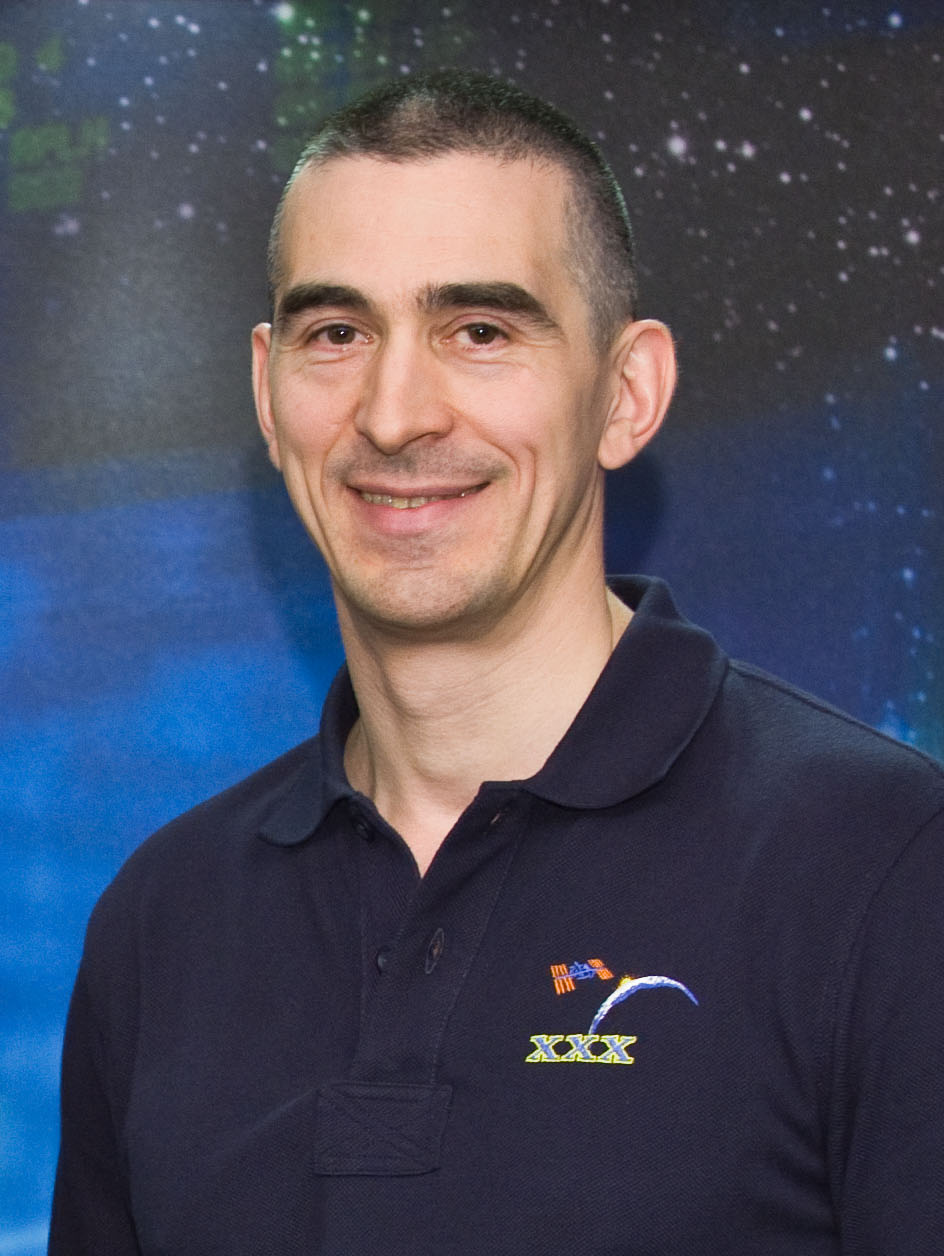 Russian cosmonaut Anton Shkaplerov is set to launch aboard a Soyuz TMA-22 spacecraft on Sept. 22. The Expedition 29 crew members posed for photos and took questions from the news media on July 27 at NASA's Johnson Space Center.